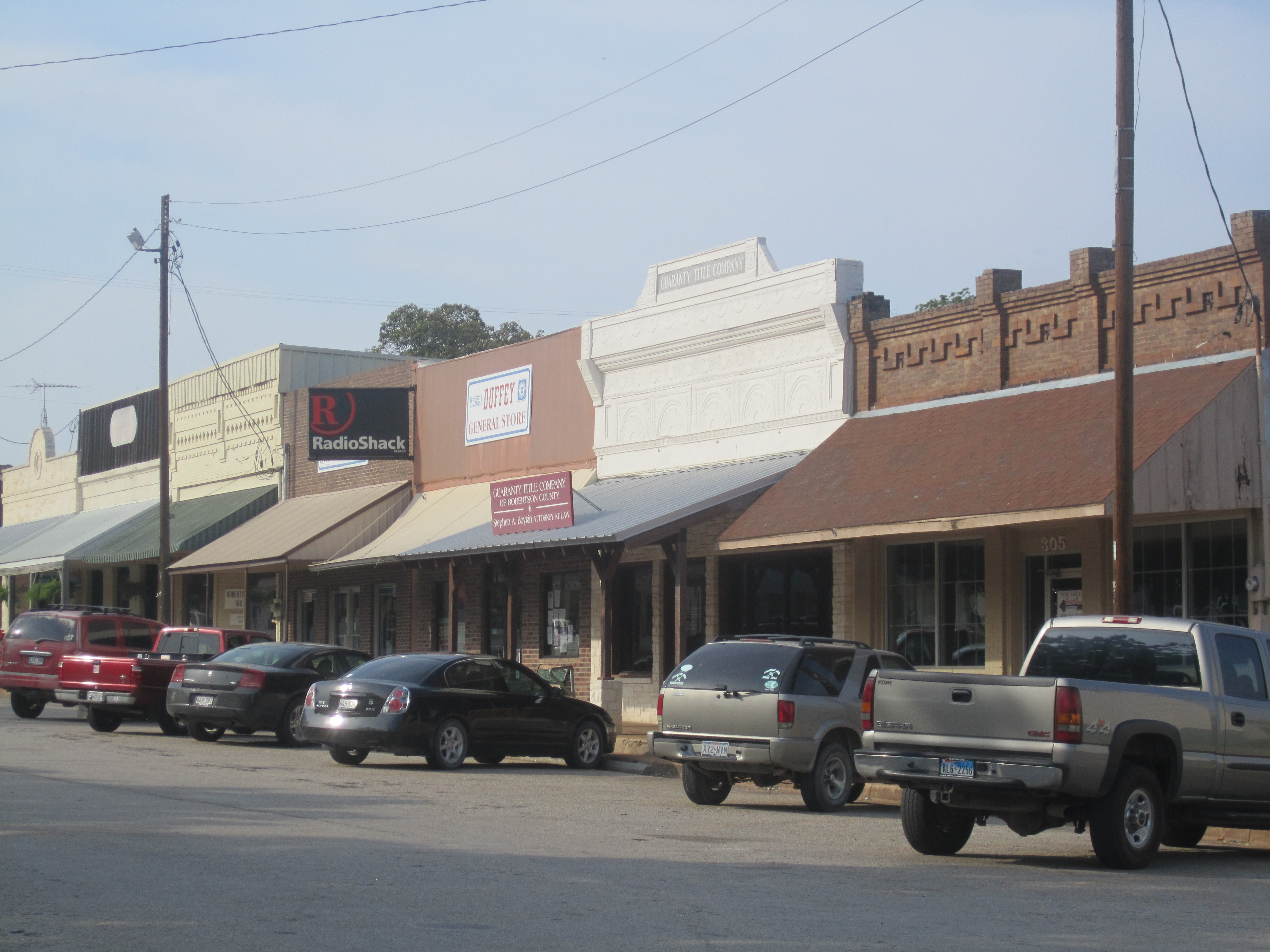 I took photo in Franklin, TX, of the downtown with a Canon camera.